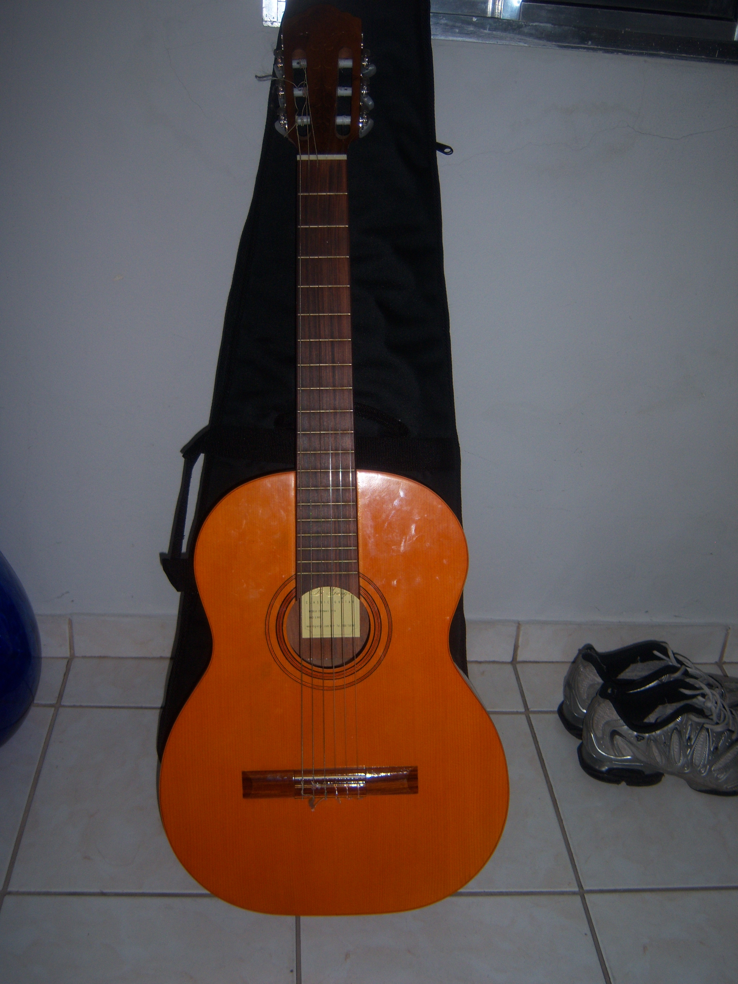 Di Giorgio Classic Guitar